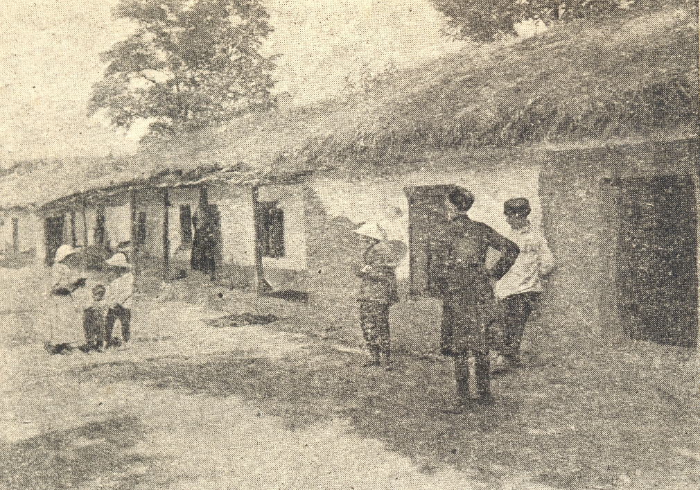 Hut in the village of Middle Achaluki